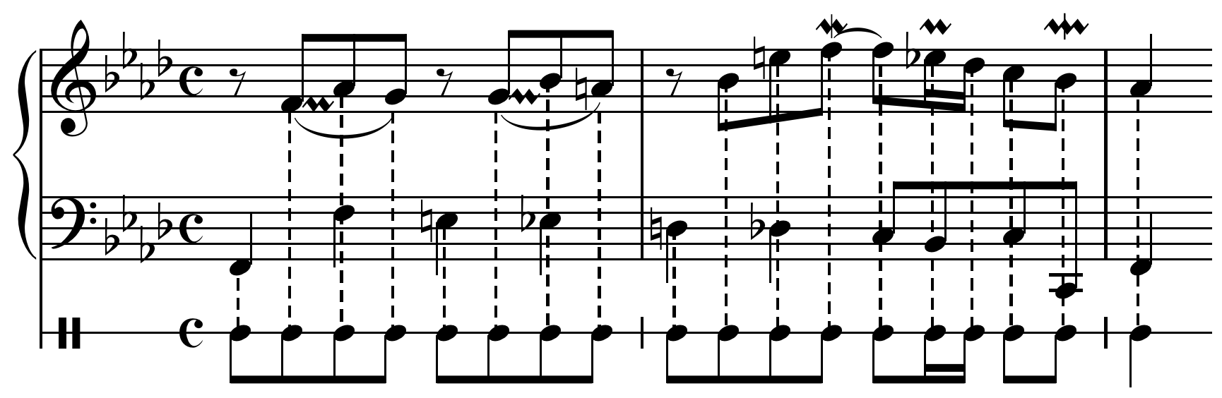 Bach, Sinfonia in F minor BWV 795, mm. 1-3, composite rhythm. Created by Hyacinth (talk) using Sibelius 5. See: File:Bach Original File:Bach Lines